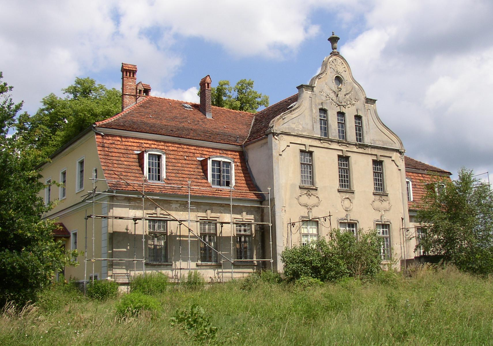 Manor-house in Görne in Brandenburg, Germany